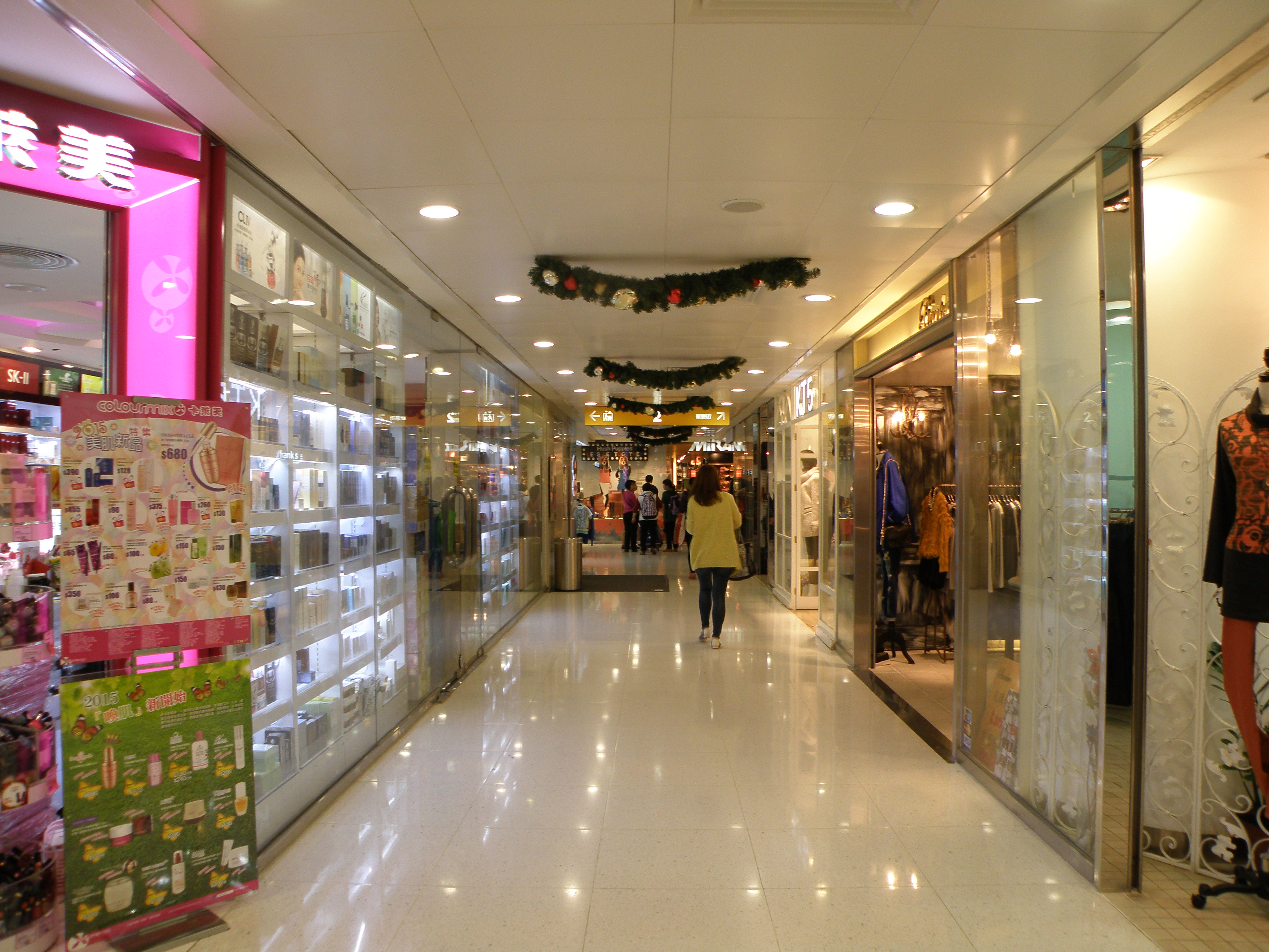 Metropolis Plaza (shopping centre) in Sheung Shui, Hong Kong.